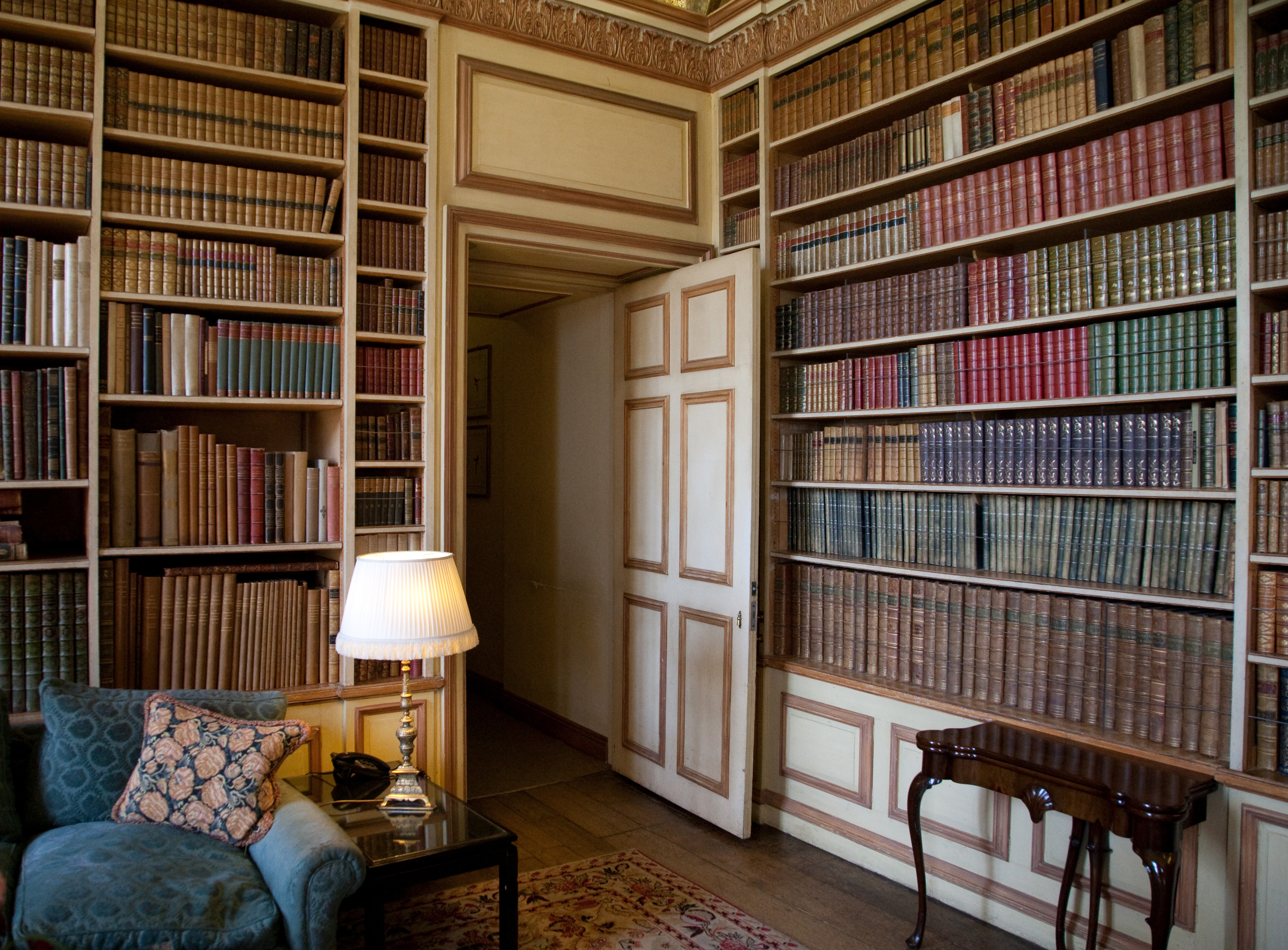 A Reading Room in Leeds Castle, Kent, England.